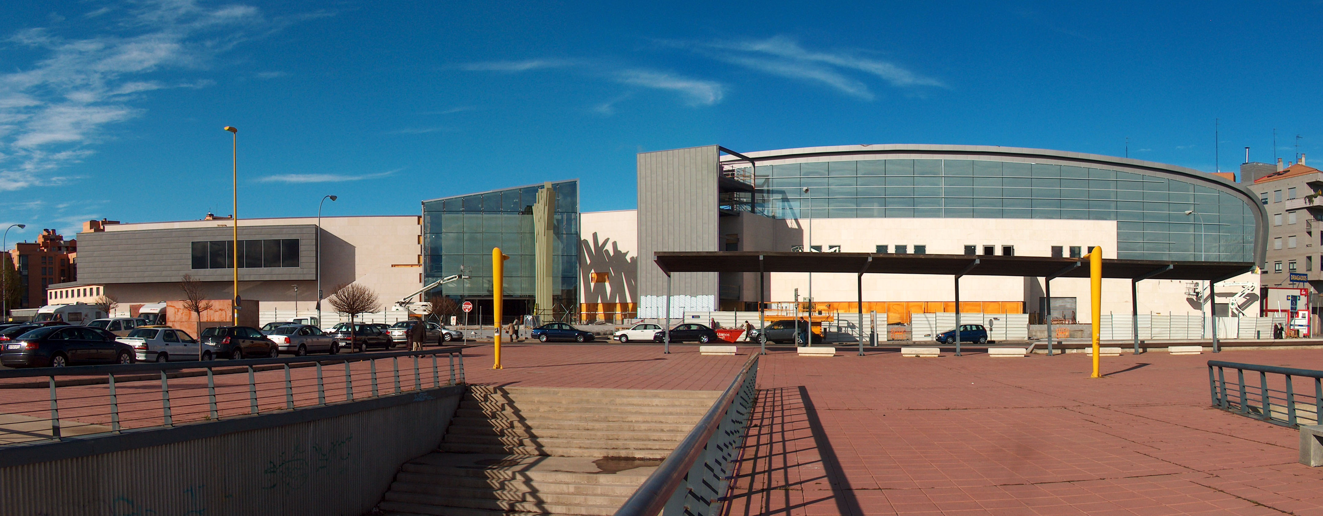 Construction works of the mall León Plaza, close to conclude.